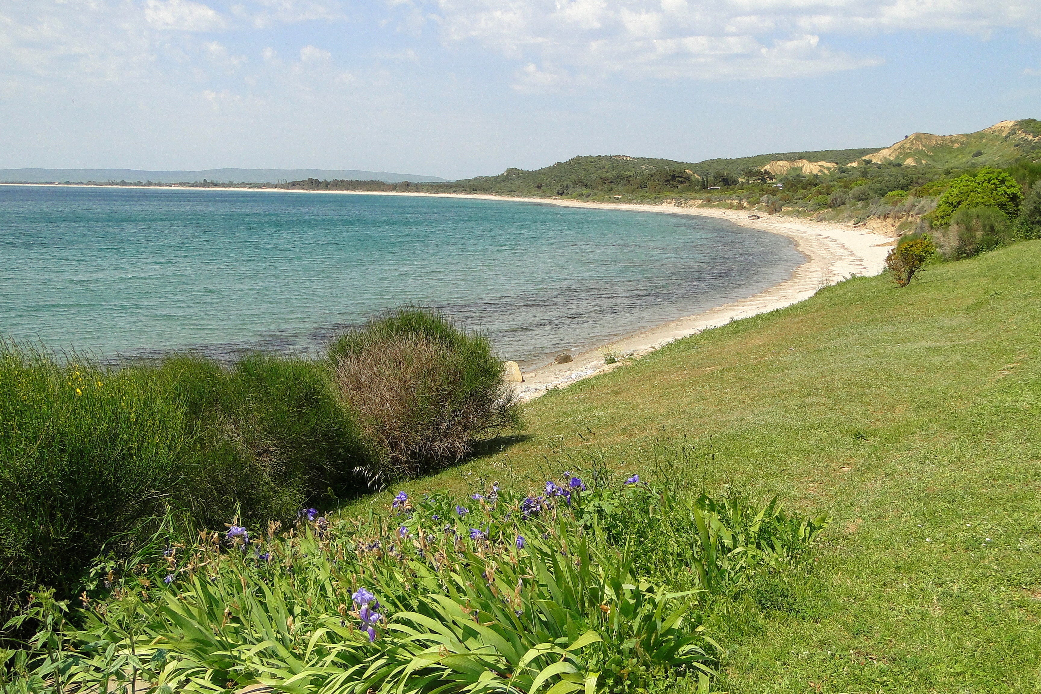 View of Anzac Cove - Gallipoli Peninsula - Dardanelles - Turkey - 01